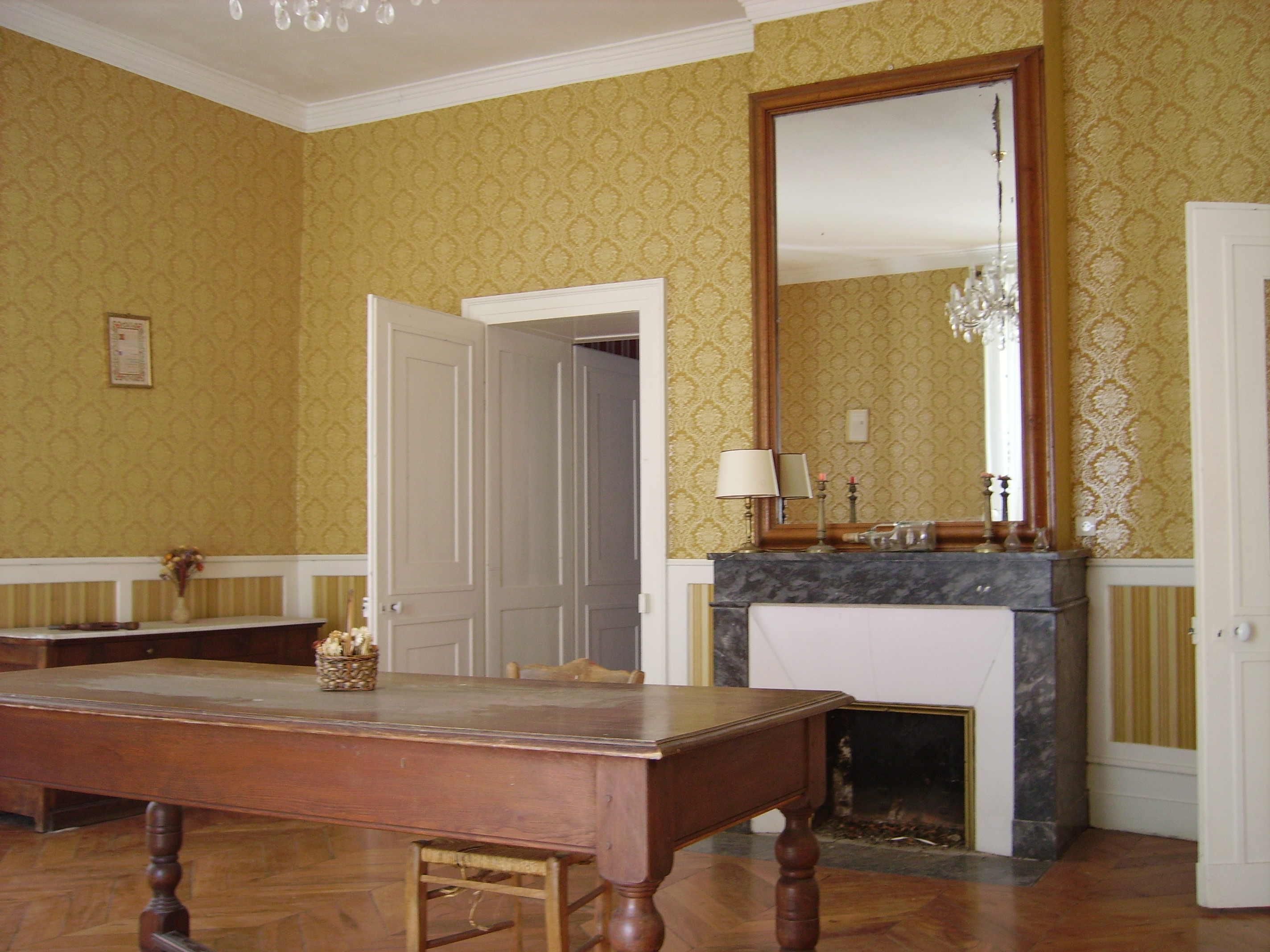 A view of Lafayette's bedroom in Maubourg